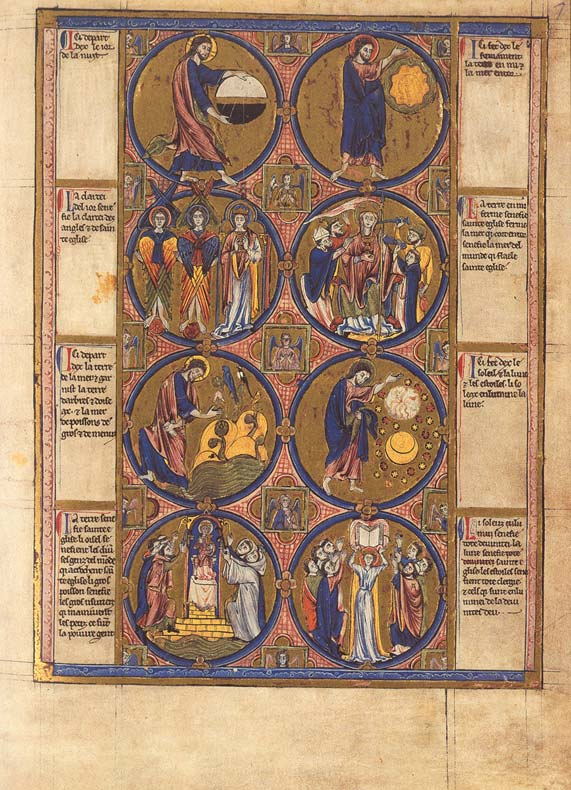 13th-century illustrations of creation according to Genesis; at top left, separating the light and darkness.